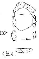 Outline of the dolmen Bierstedt, Saxony-Anhalt